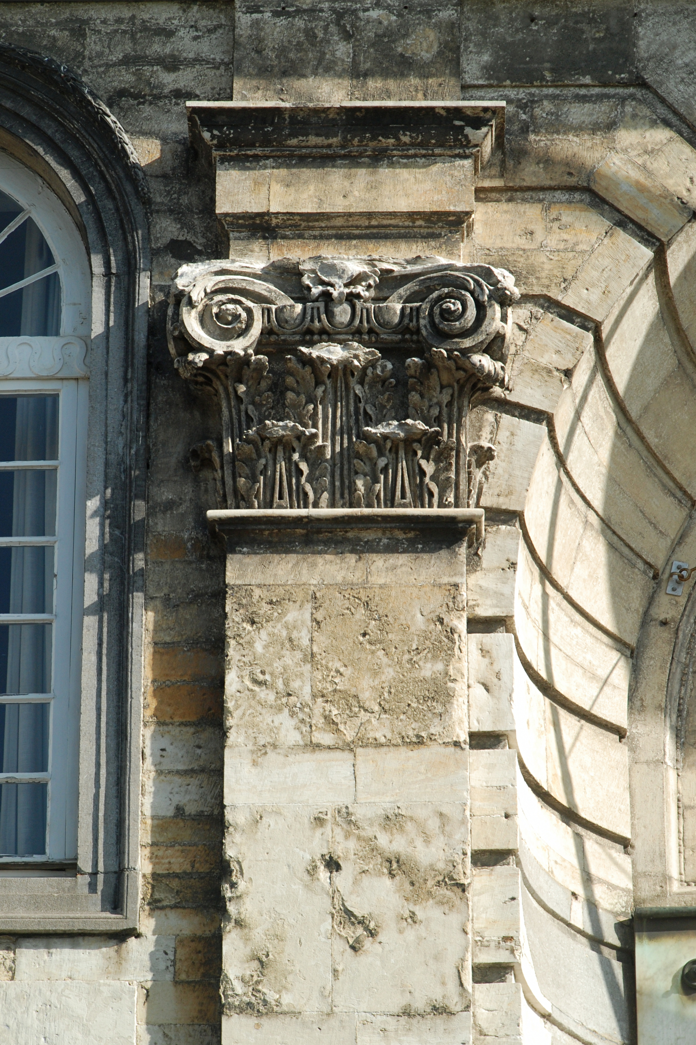 Belgium - Leuven - Pope Adrian VI college